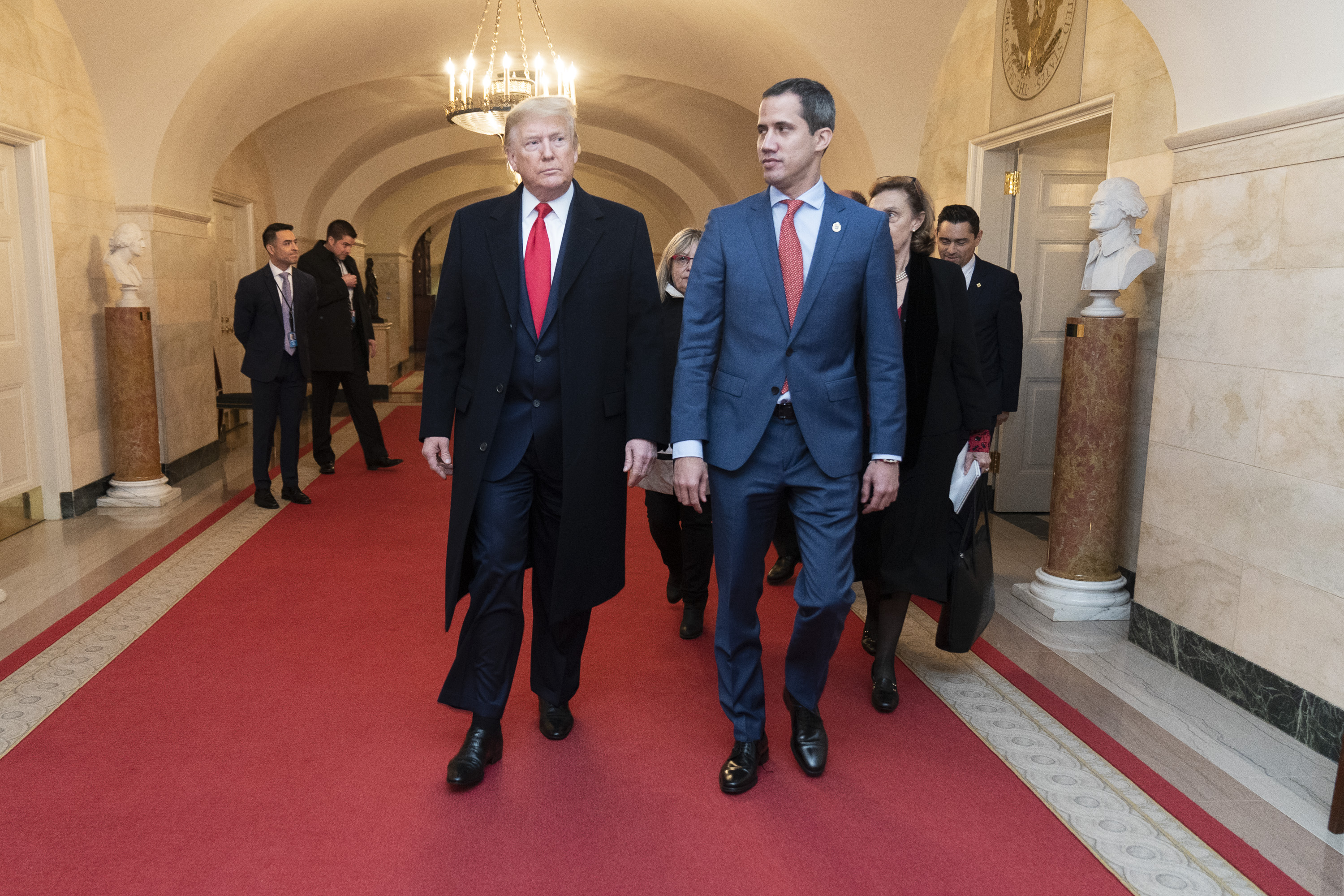 President Donald J. Trump walks with Interim President of the Bolivarian Republic of Venezuela Juan Guaido Wednesday, Feb. 5, 2020, through Center Hall of the White House on their way to an Oval Office meeting. (Official White House Photo by Shealah Craighead)